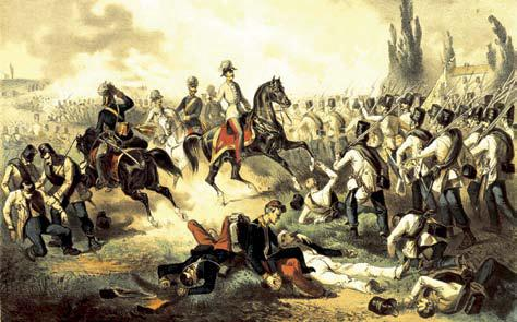 The Austrian Emperor Franz Joseph among his troops at Solferino June 24, 1859.